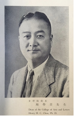 Henry Hsueh-Chang Chou (1893-1945), also known as Zhou XueZhang, was from Hebei Tianjin, China and was a famous Chinese educator in modern times. From 1924 until his death, he served as a professor at the Institute of Xiamen University (Amoy University), a professor at the National University of China, and a professor at Hebei University, as well as a provost and acting principal. In 1926, Dr. Chou was invited to be a professor in the Department of Education at Yenching University. From 1935-1941, he was elected and served as the Chairman of the Department. From 1930-1933 and 1938-1942, he served as the Dean of the College of Arts and Letters at Yenching University.